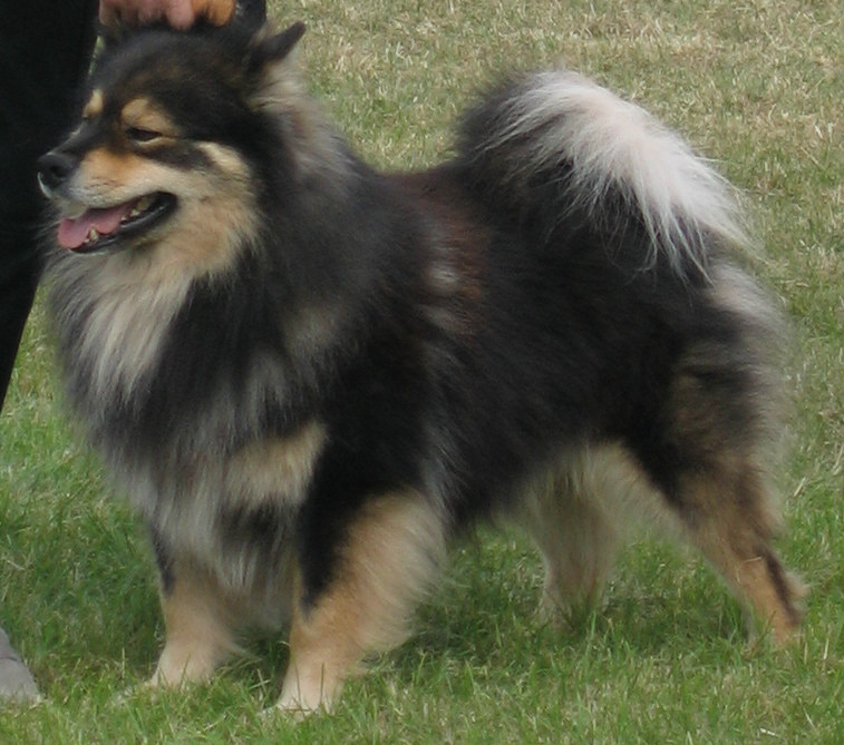 Glenchess Revontuli, one of the best Finnish Laphunds in the UK, is owned by Elaine Short of Glenchess